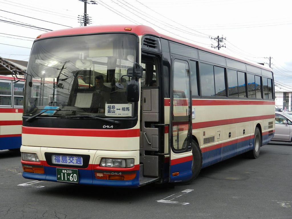 Fukushima kotsu Express bus "Soma-Ryozen,Fukushima"